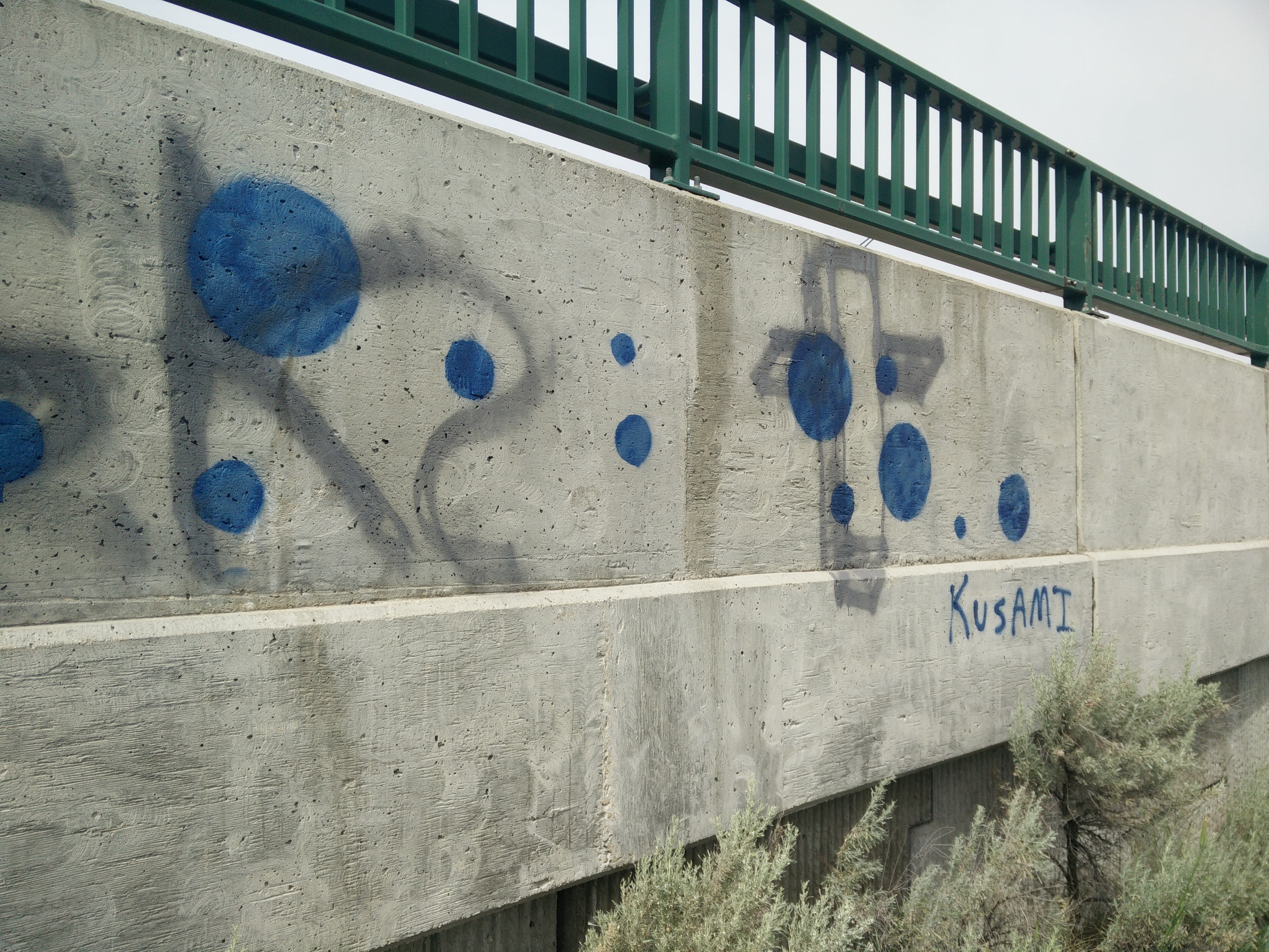 Anti-graffiti art inspired by Yayoi Kusami's polka dot motif.